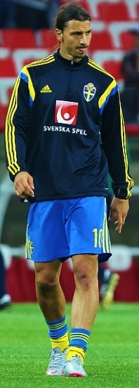 Zlatan Ibrahimović